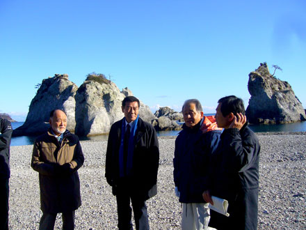 Katsuhiko Yokomitsu, Senior Vice-Minister of the Environment, inspected Jōdogahama with Chōuemon Kikuchi, Member of the House of Representatives, in Miyako City, Iwate Prefecture on December, 2011.